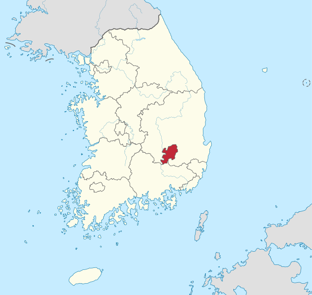 Map of South Korea with Gumi highlighted